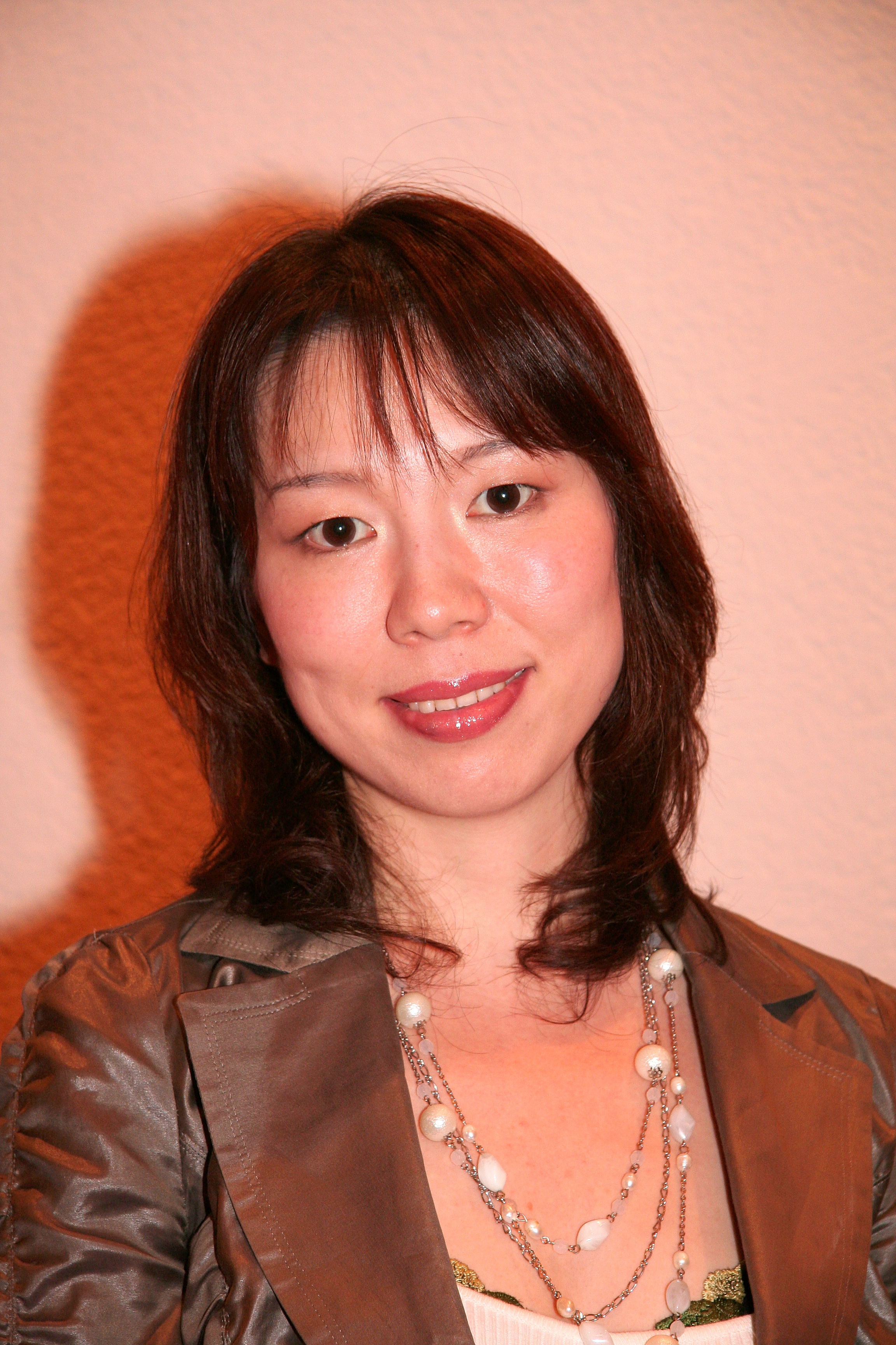 Autograph session with You Higuri at Manga Expo 2007 (Paris, France).